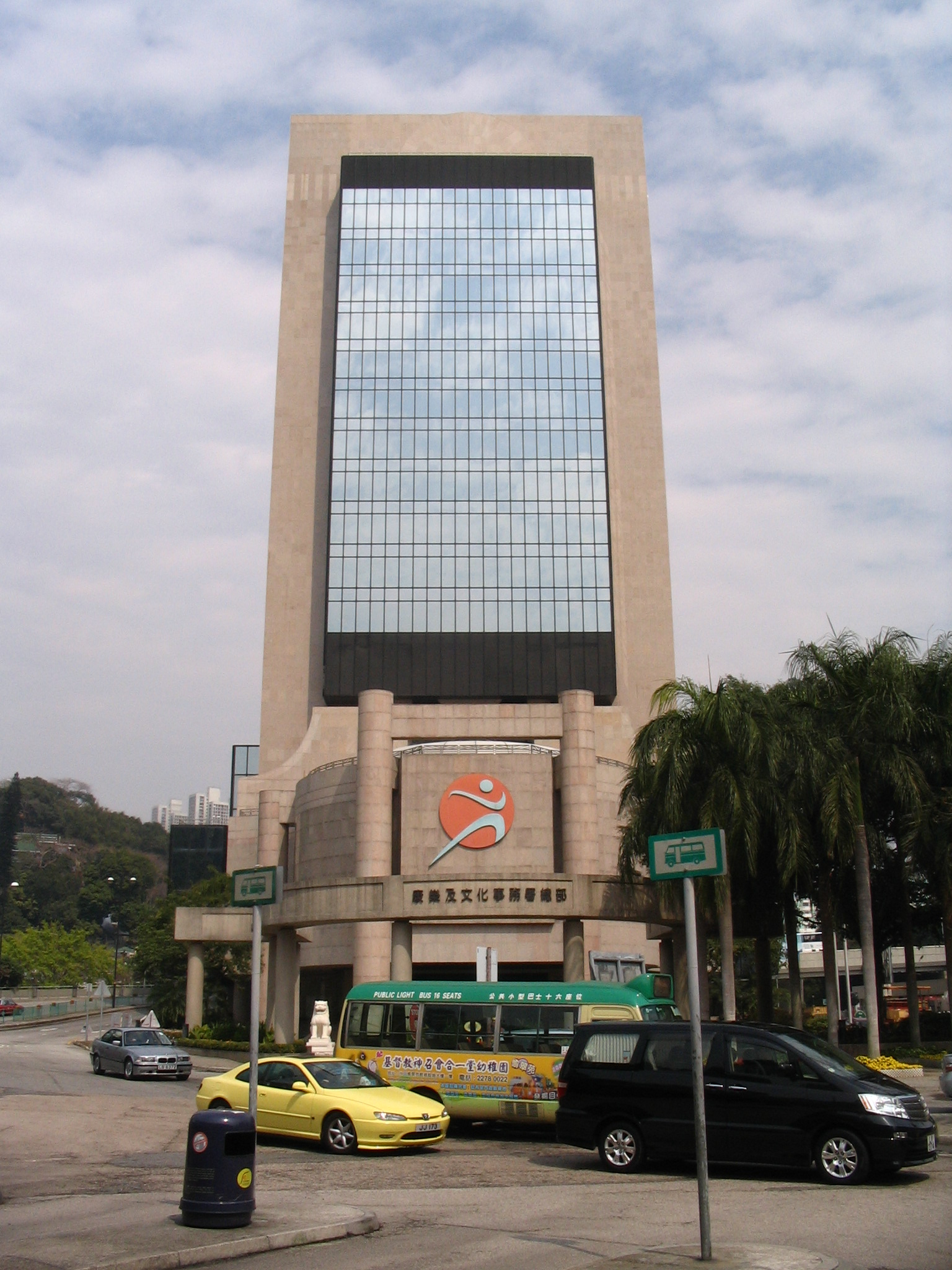 Photo of Leisure and Cultural Services Headquarters